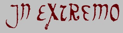 The logo of In Extremo (metal band).